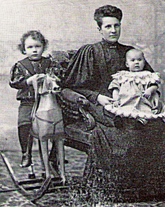 Anni Helmi Krohn also Helmi Setälä (31 October, 1871 – 18 October, 1967) was a Finnish writer who wrote fiction, biographies and for children. She was also an editor and publisher. Note - her marriage was over by 1913